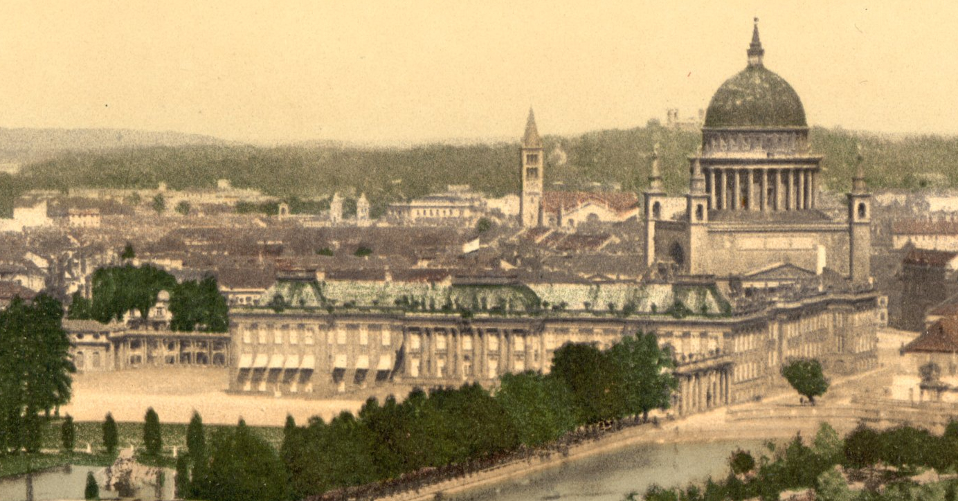 A cutaway from an old postcard of Potsdam (Germany) with the Stadtschloss and the St. Nikolaikirche.